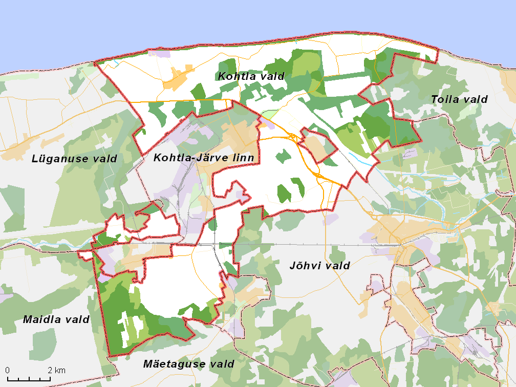 Map of municipality in Estonia